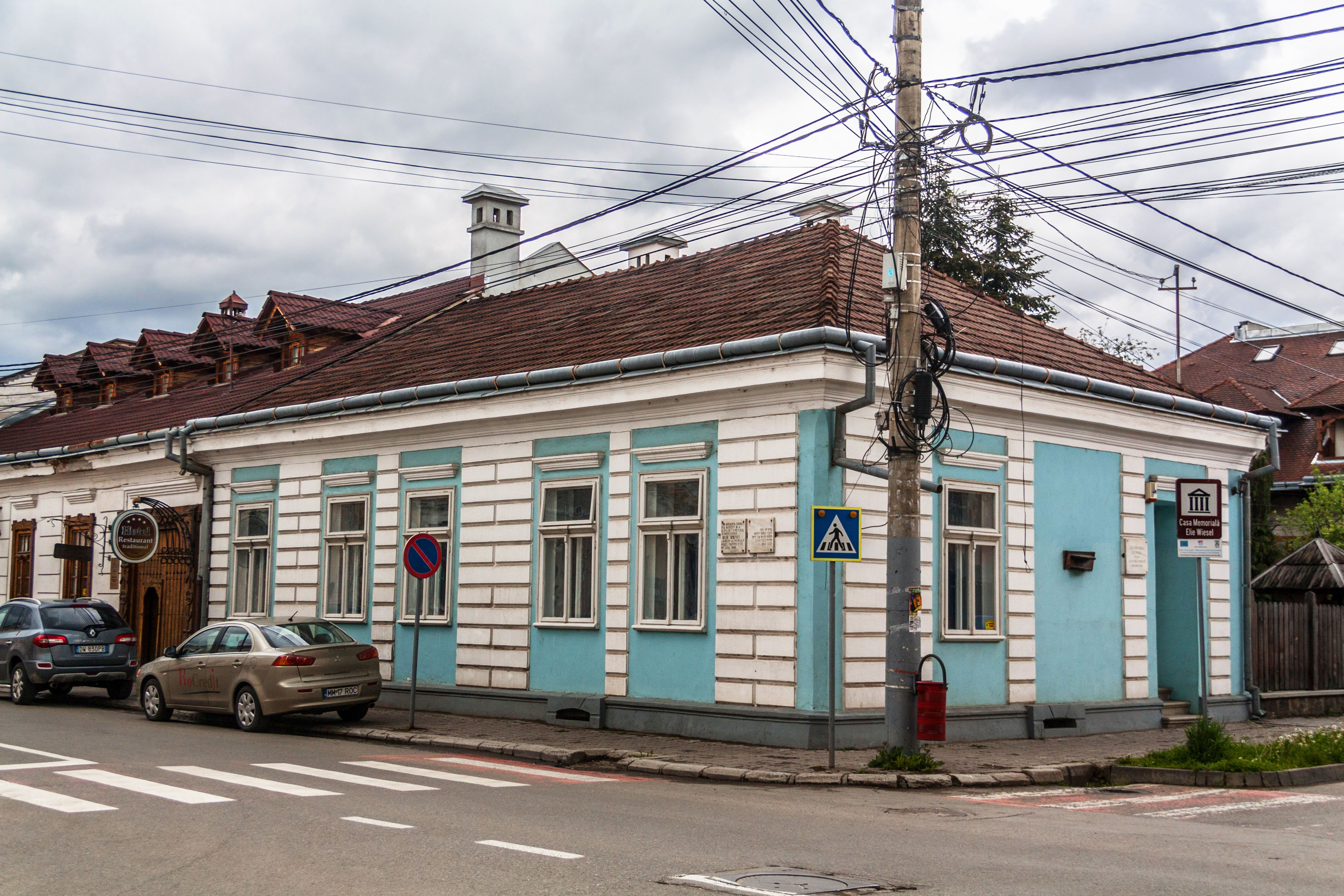 Elie Wiesel Memorial House